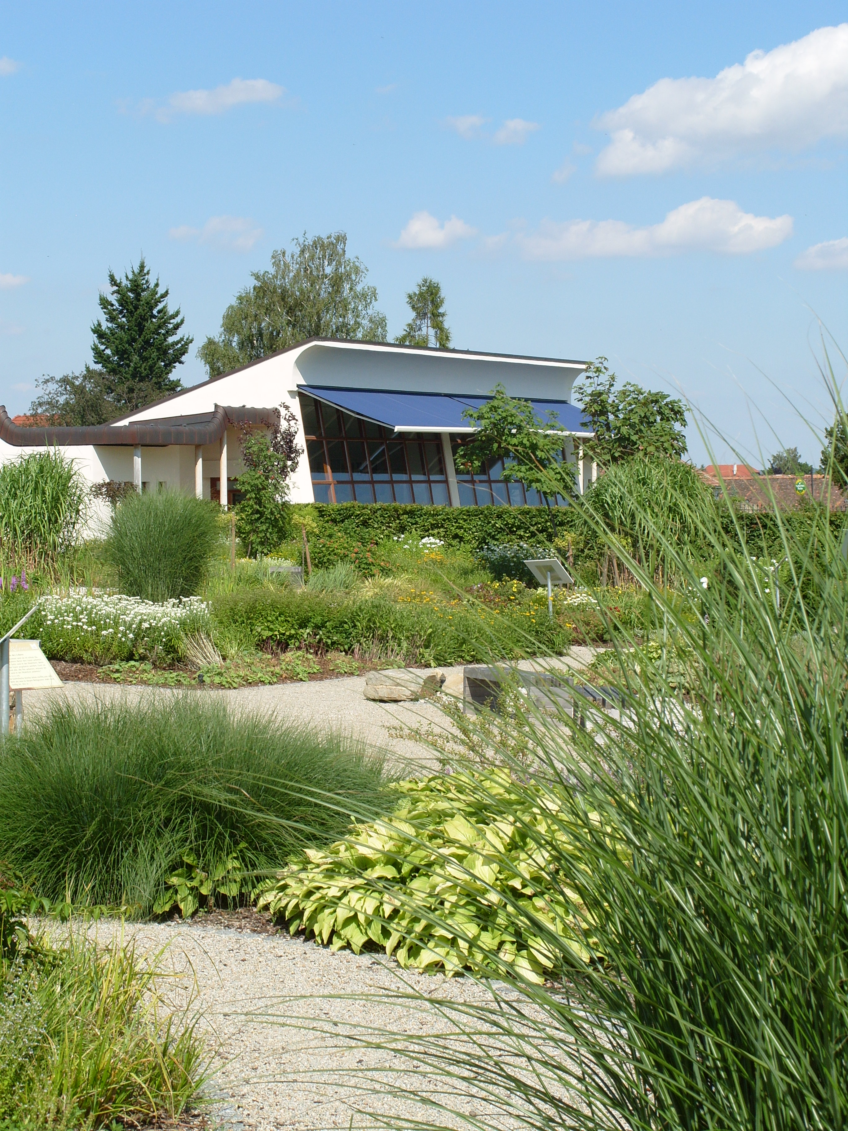 Stift Altenburg, garden of religions Dieses Bild wurde anlässlich des österreichischen Tags des Denkmals 2013 in Niederösterreich eingereicht.